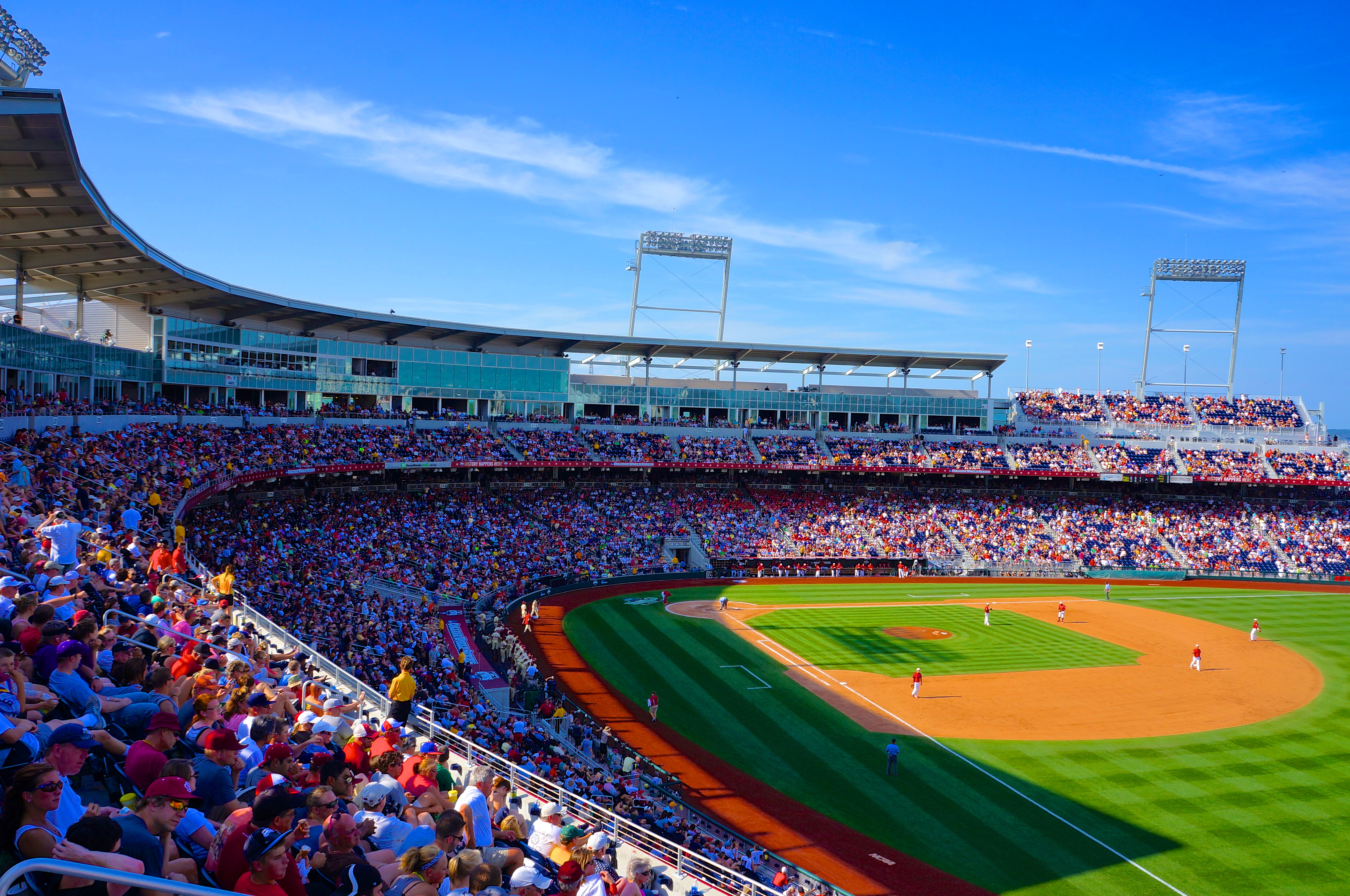 TD Ameritrade Park Omaha